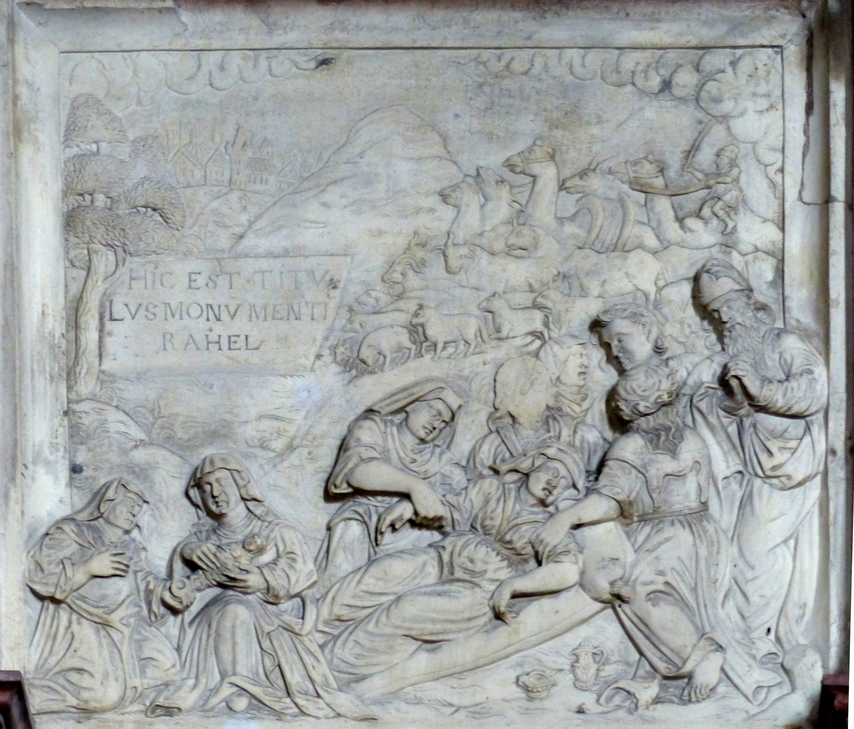 Eferding ( Upper Austria ). Saint Hippolytus parish church: Epitaph ( 1605 ) for Christina Praunfalk - Death of Rachel while giving birth to her son Benjamin